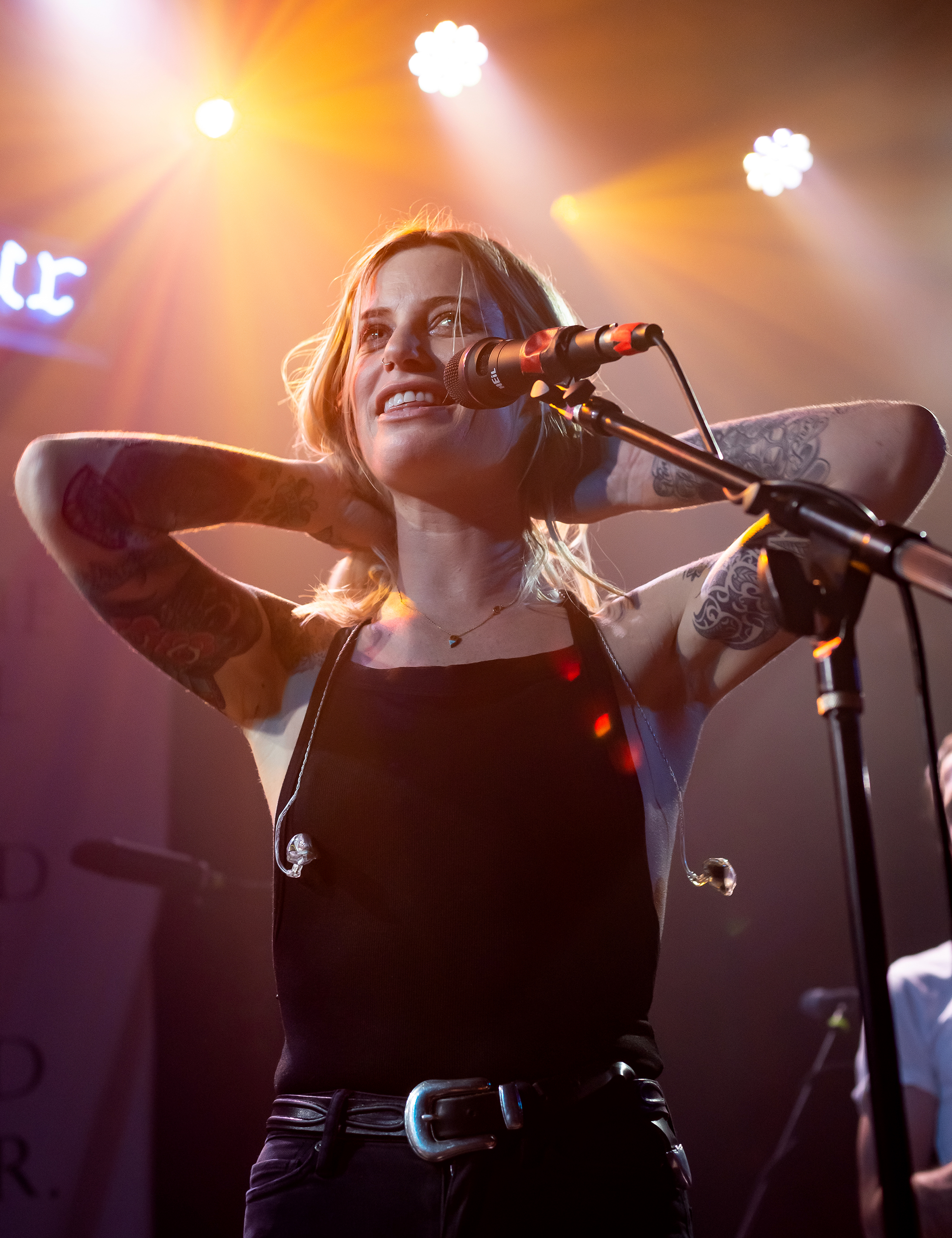 Gin Wigmore performing live at The Troubadour in Los Angeles, California, on Thursday, June 28, 2018.